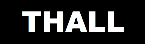 Thall Djent Scene